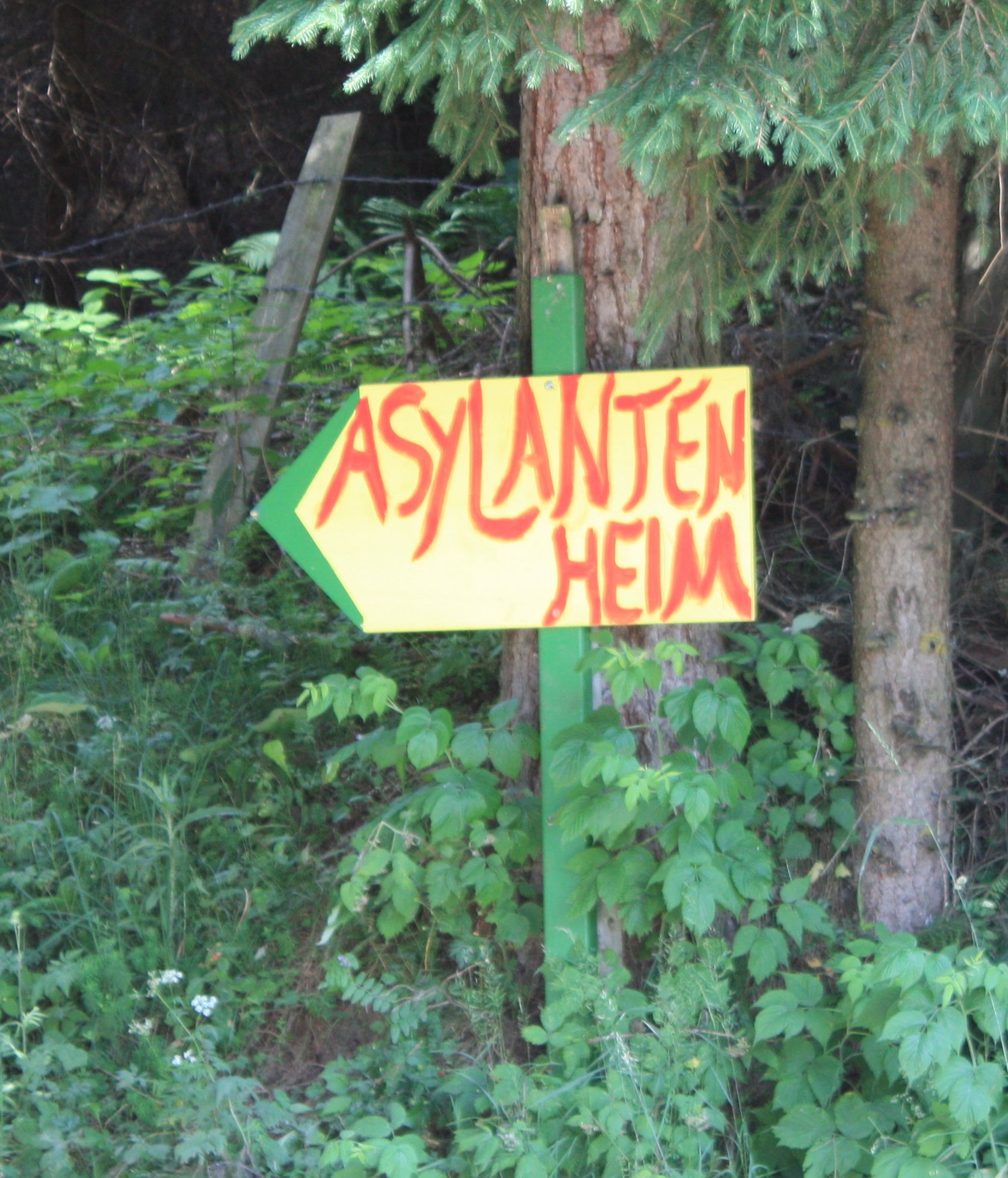 Sign to the Asylum Home in Wölfnitz in the community of Griffen